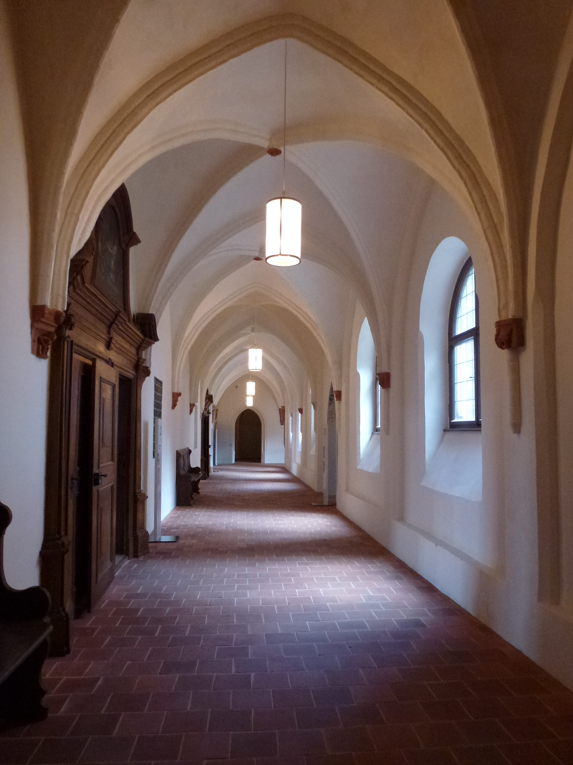 Kloster Neuzelle Kreuzgang